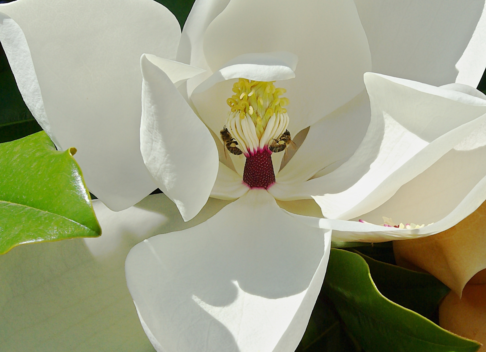 Magnolia flowers (Magnolia grandiflora) and honey bees (Apis mellifera) in a public garden, France. APG III Classification: Domain: Eukaryota • (unranked): Archaeplastida • Regnum: Plantae • Cladus: angiosperms • Cladus: magnoliids • Ordo: Magnoliales • Familia: Magnoliaceae • Genus: Magnolia • Species: Magnolia × wieseneri Carrière (1890)